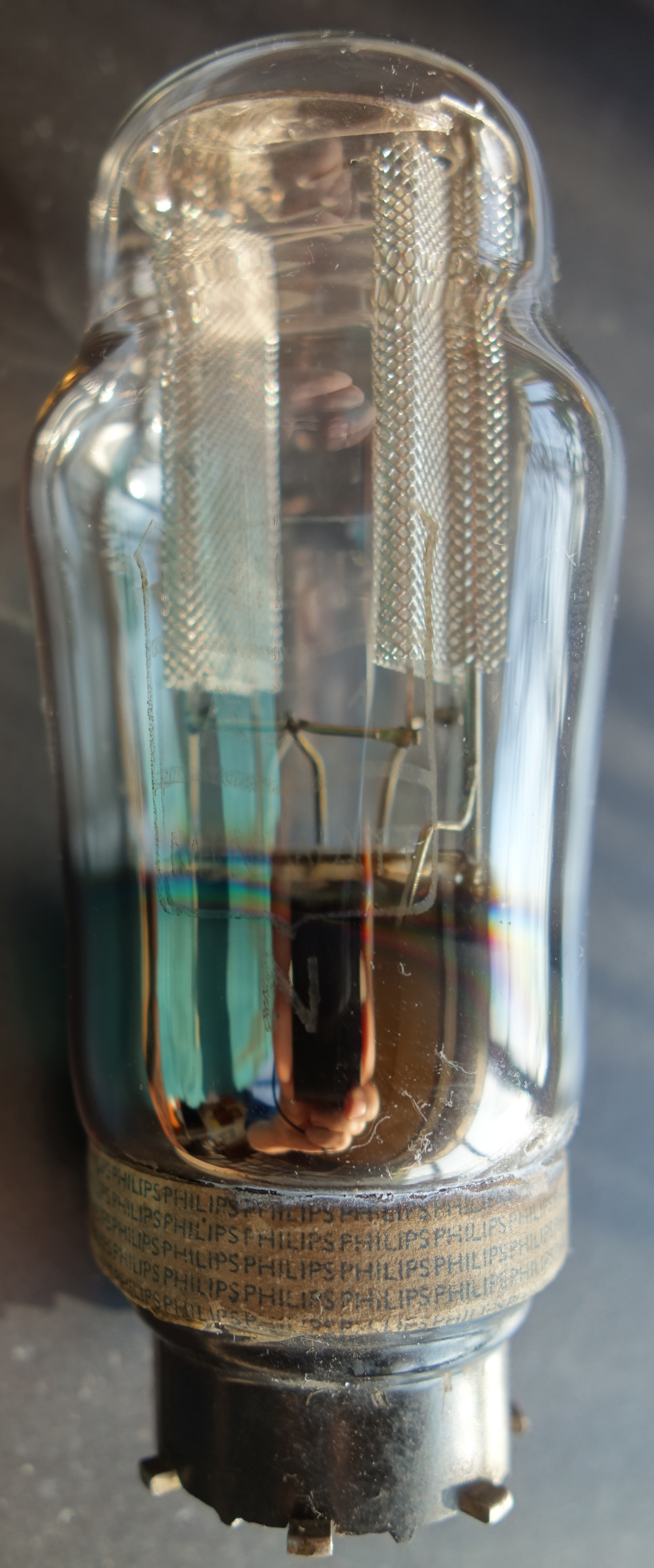 AZ1-Philips full wave rectifier